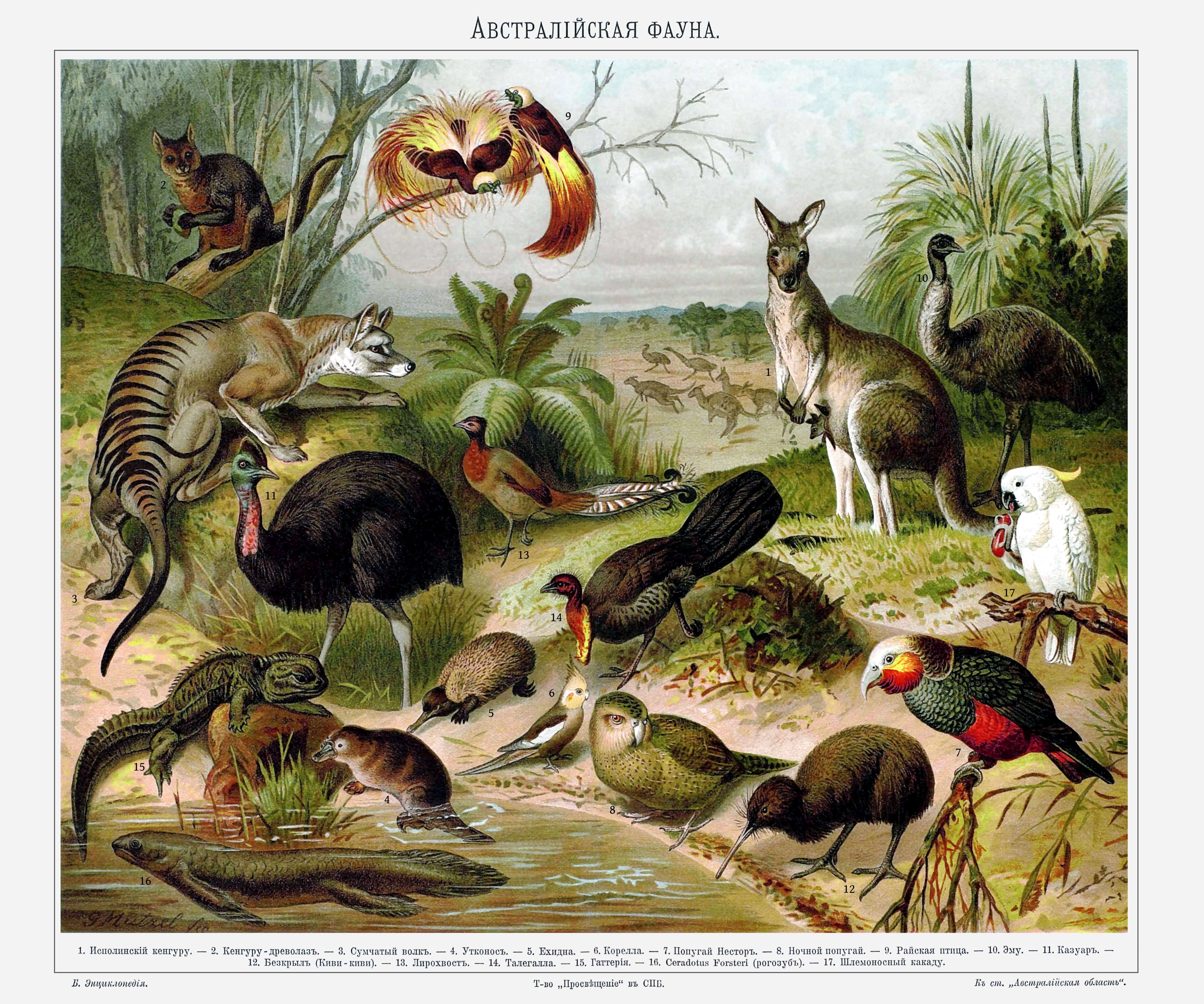 Illustration from Yuzhakov Big Encyclopedia (1900—1907). Australian fauna.